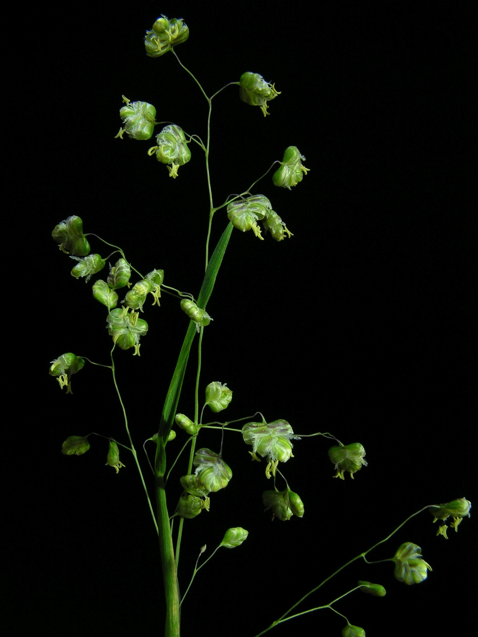 Compound inflorescence of Quaking-grass. Length of the separate spikelet is appr. 5 mm. Numerous stamens could be seen.